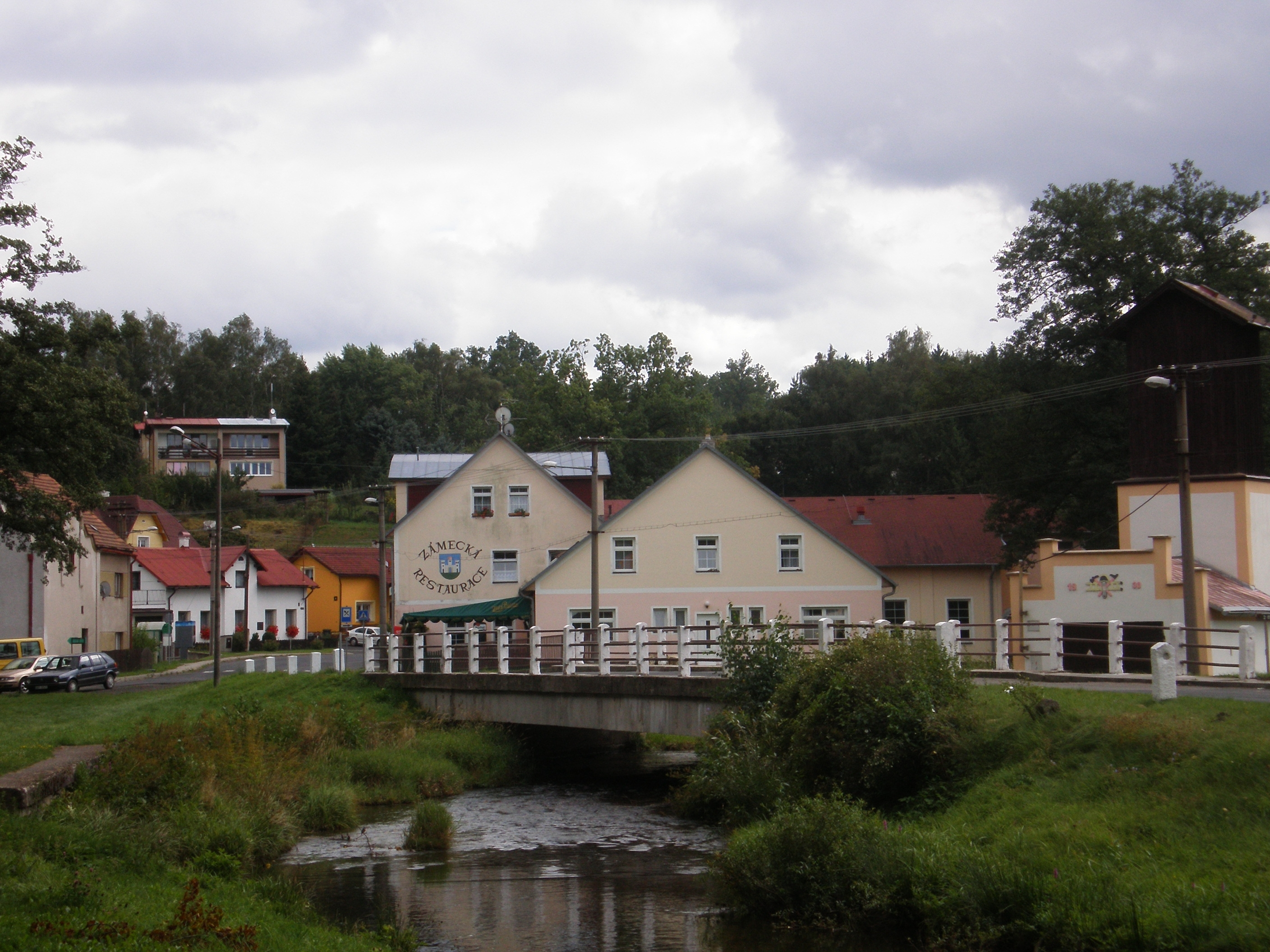 Multicipality of Kaceřov, Sokolov District, Czech Republic.